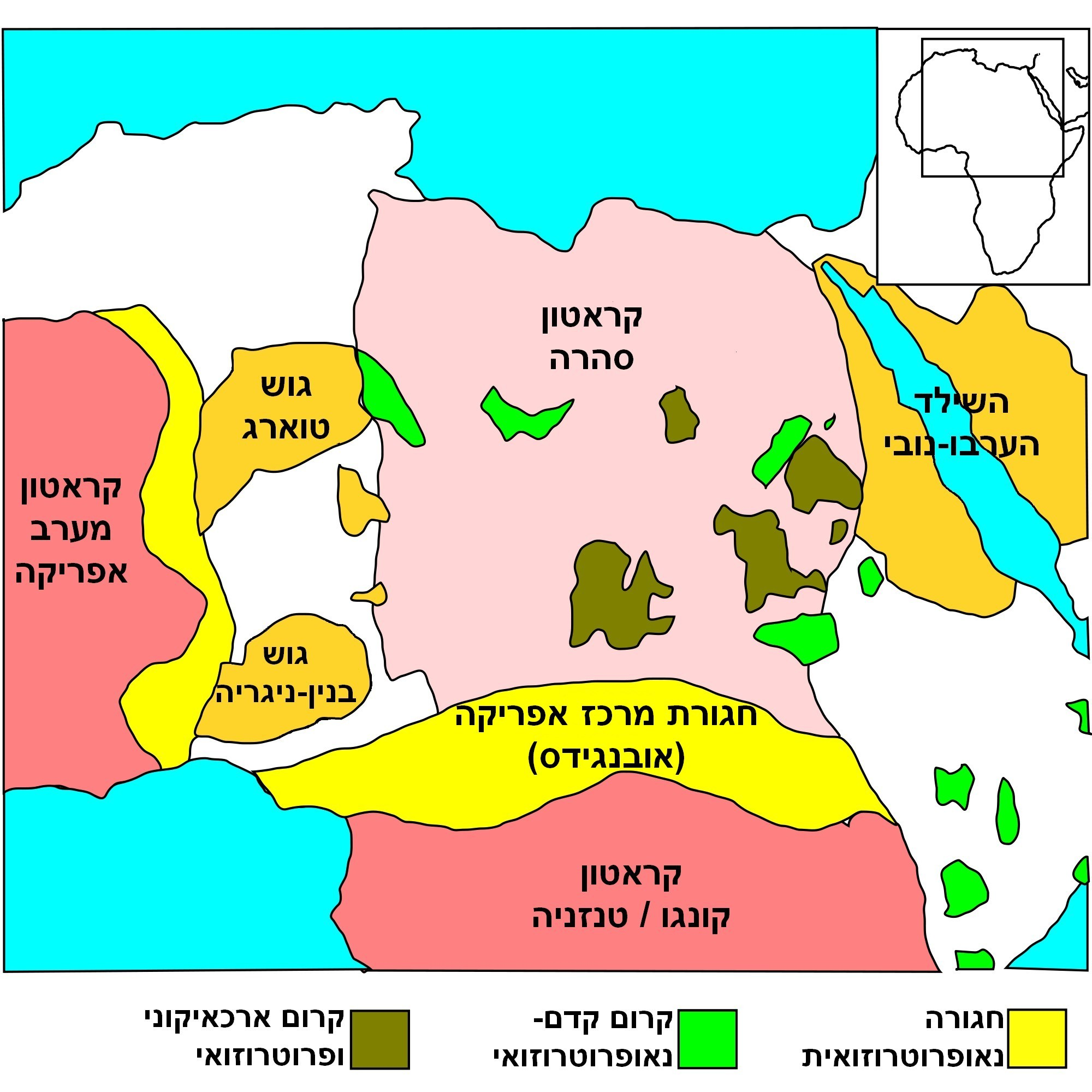 Northern Africa showing Saharan Metacraton